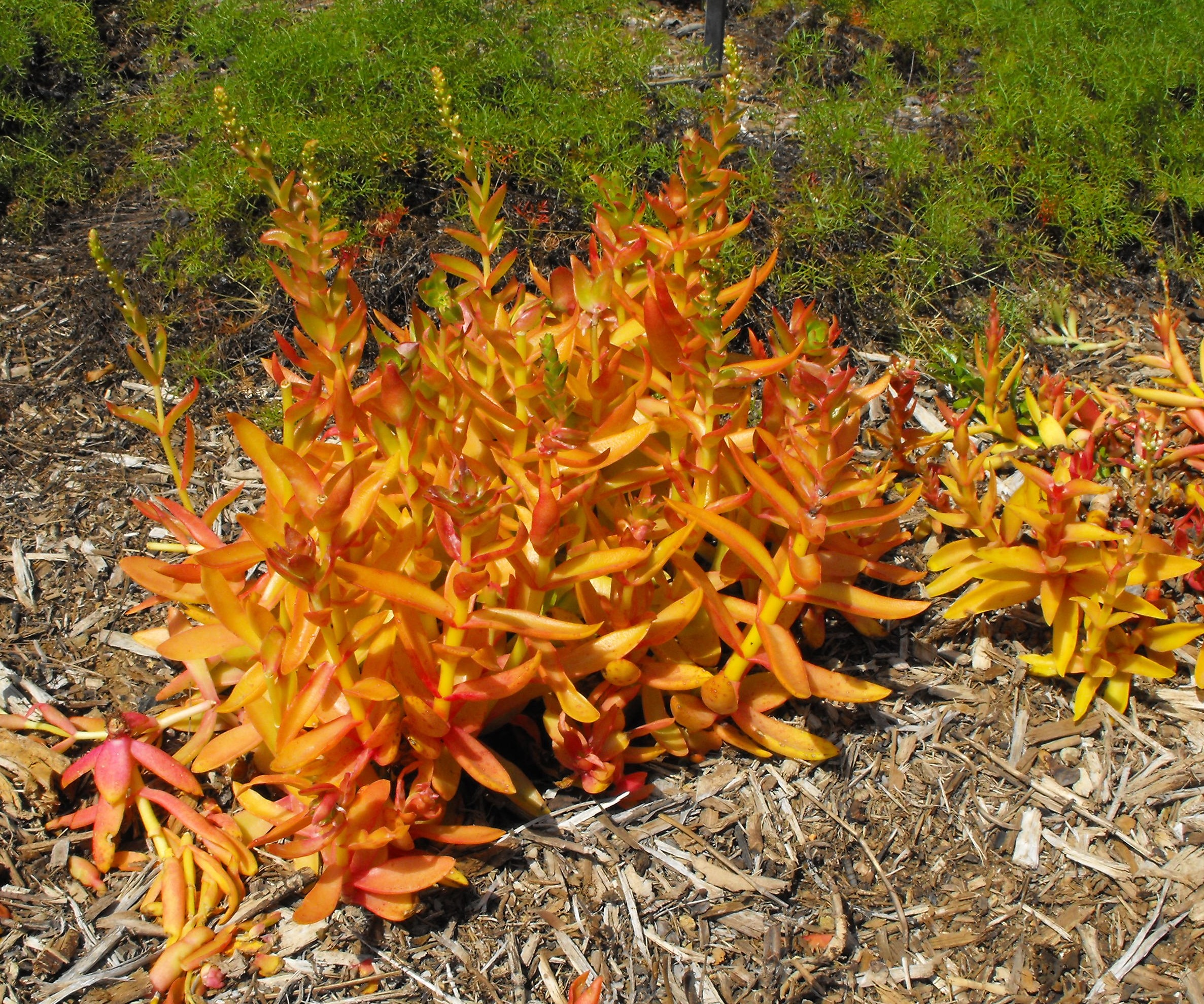 Crassula capitella 'Campfire' in the Water Conservation Garden at Cuyamaca College, El Cajon, California, USA. Identified by sign.